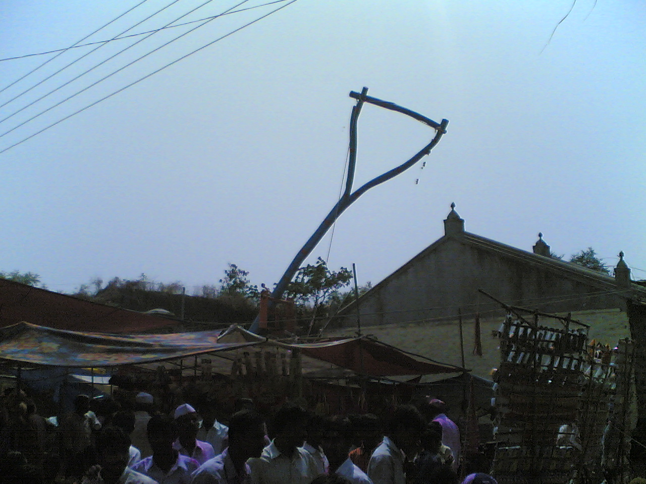 Bhikawadi Bagad Summary Bhikawadi Bagad